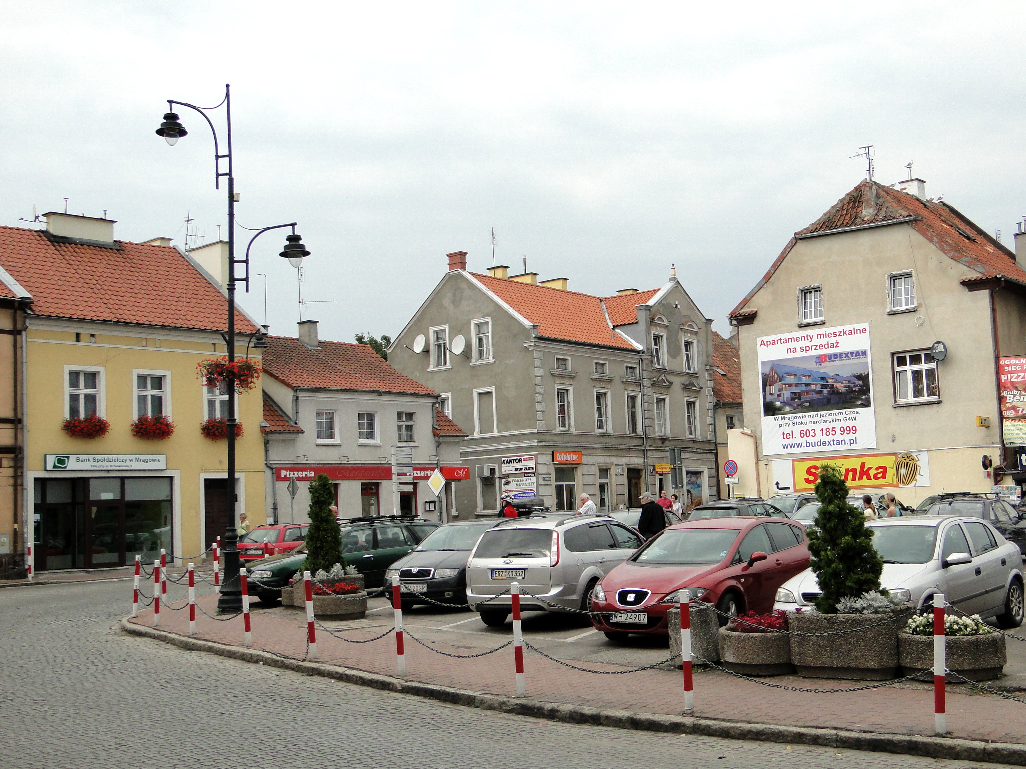 Żeromskiego street, Mrągowo, Poland.